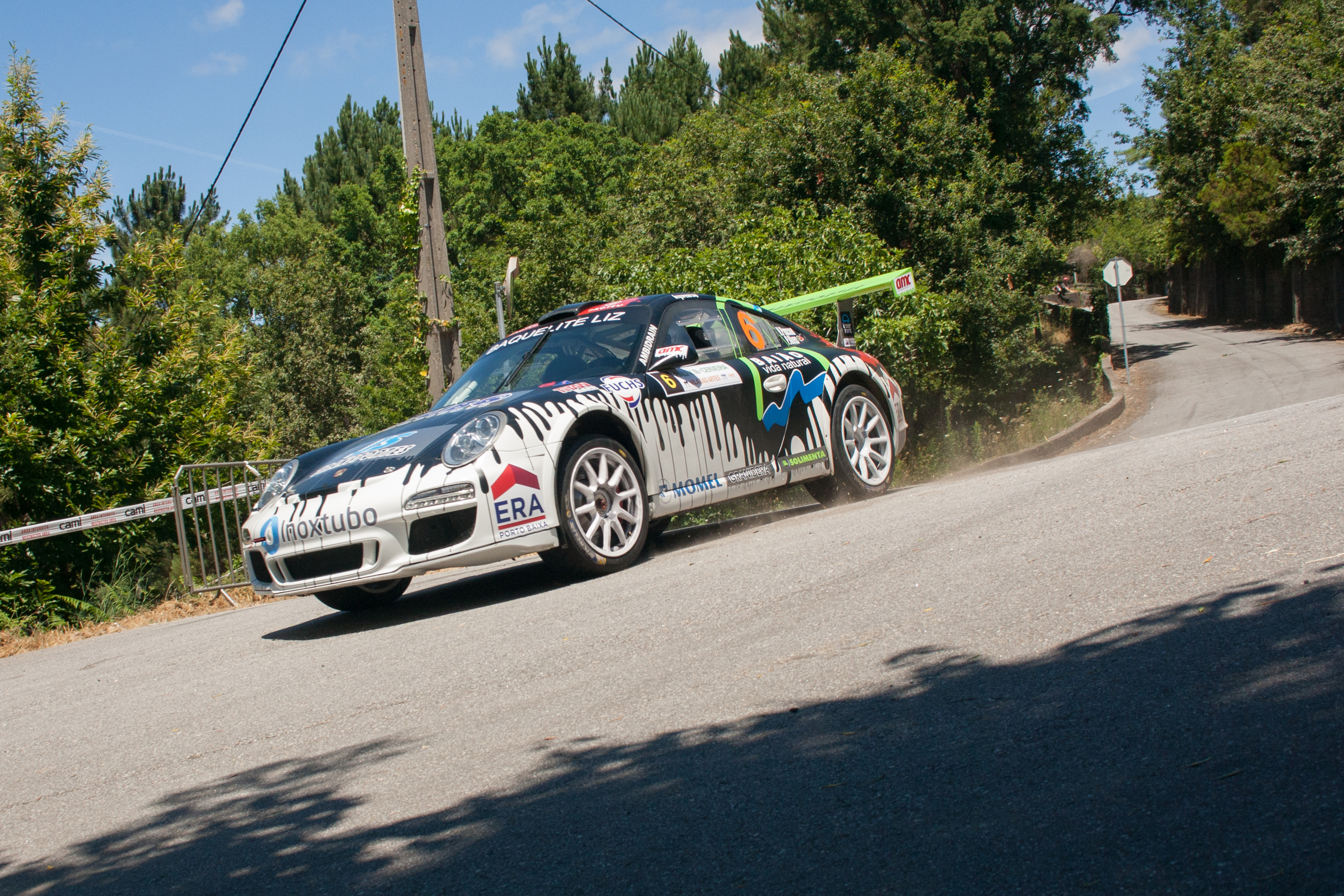 Rali Vila Nova de Cerveira